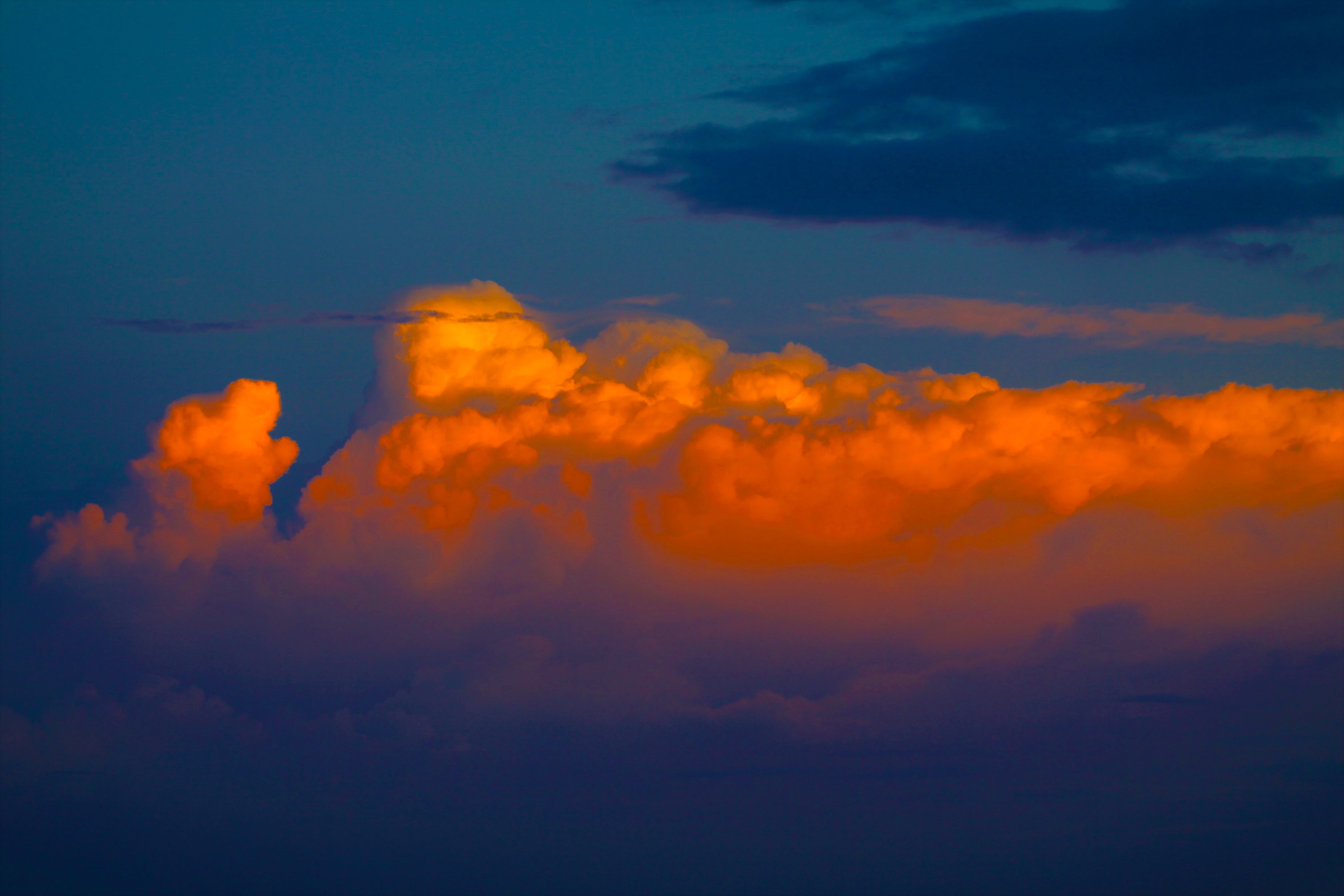 Phu Suansai national park อุทยานแห่งชาติภูสวนทราย